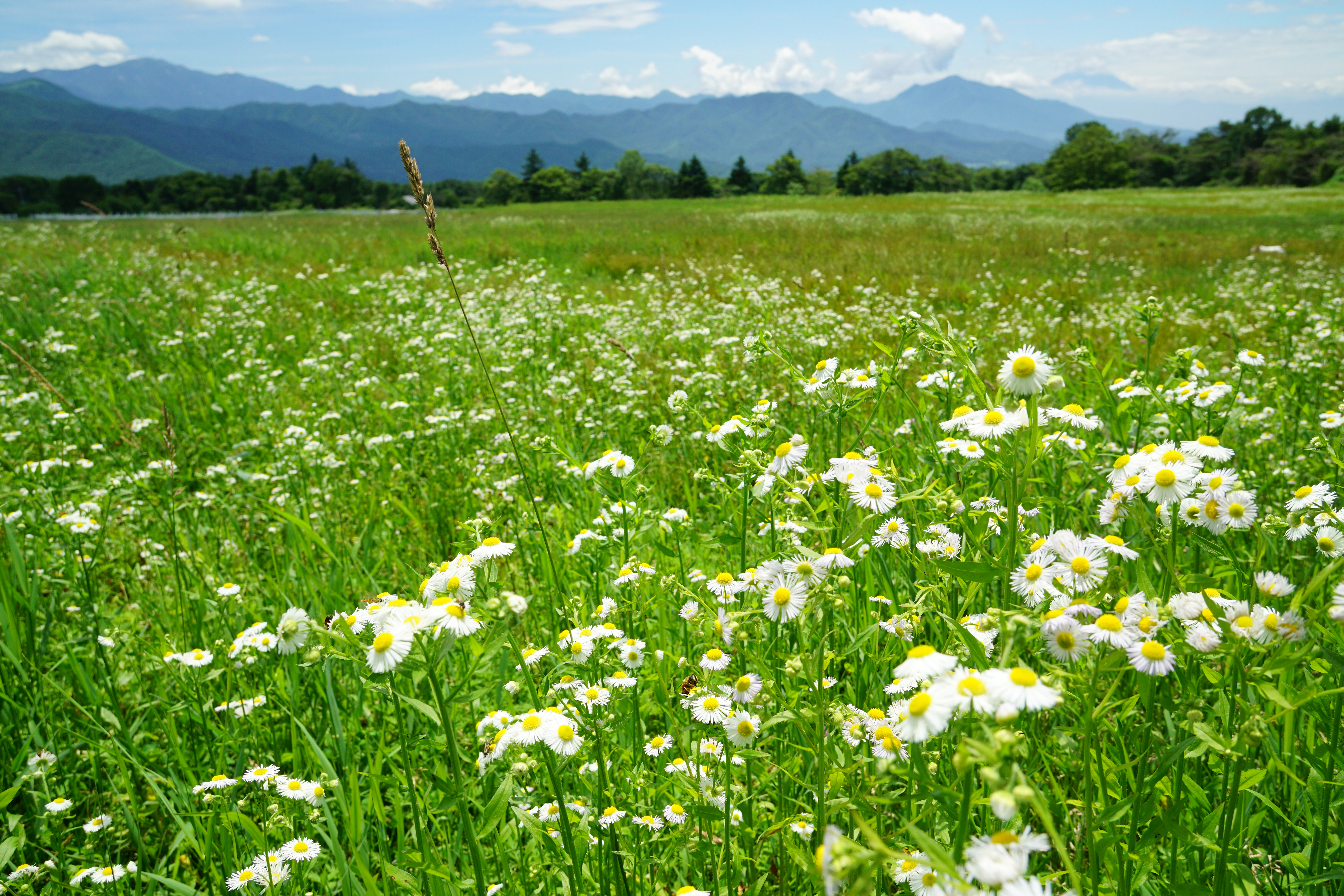 Seisen-ryo in Hokuto, Yamanashi prefecture, Japan.